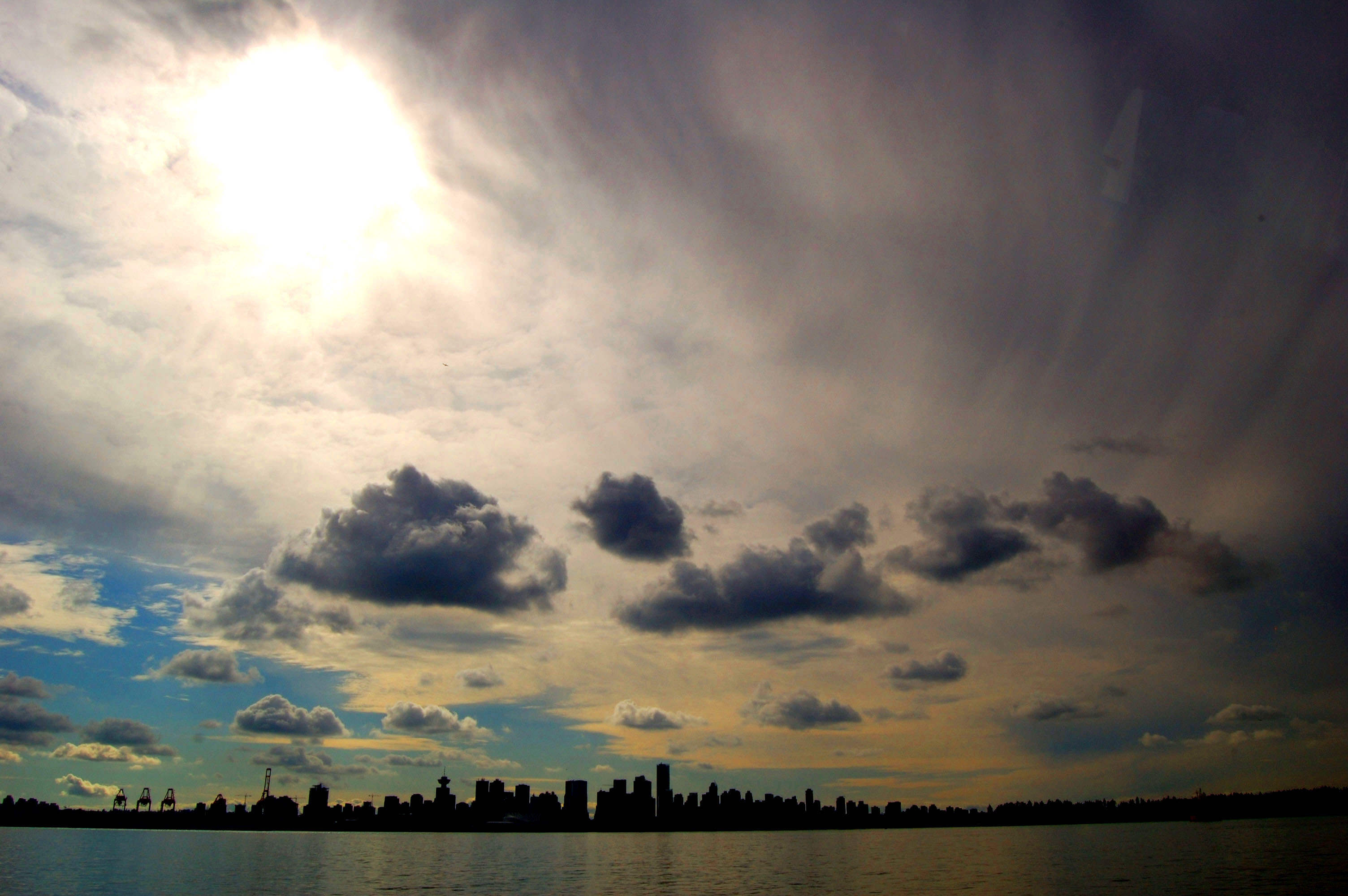 From North Vancouver.